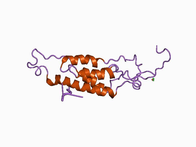 Cartoon representation of the molecular structure of protein registered with 1cgm code.